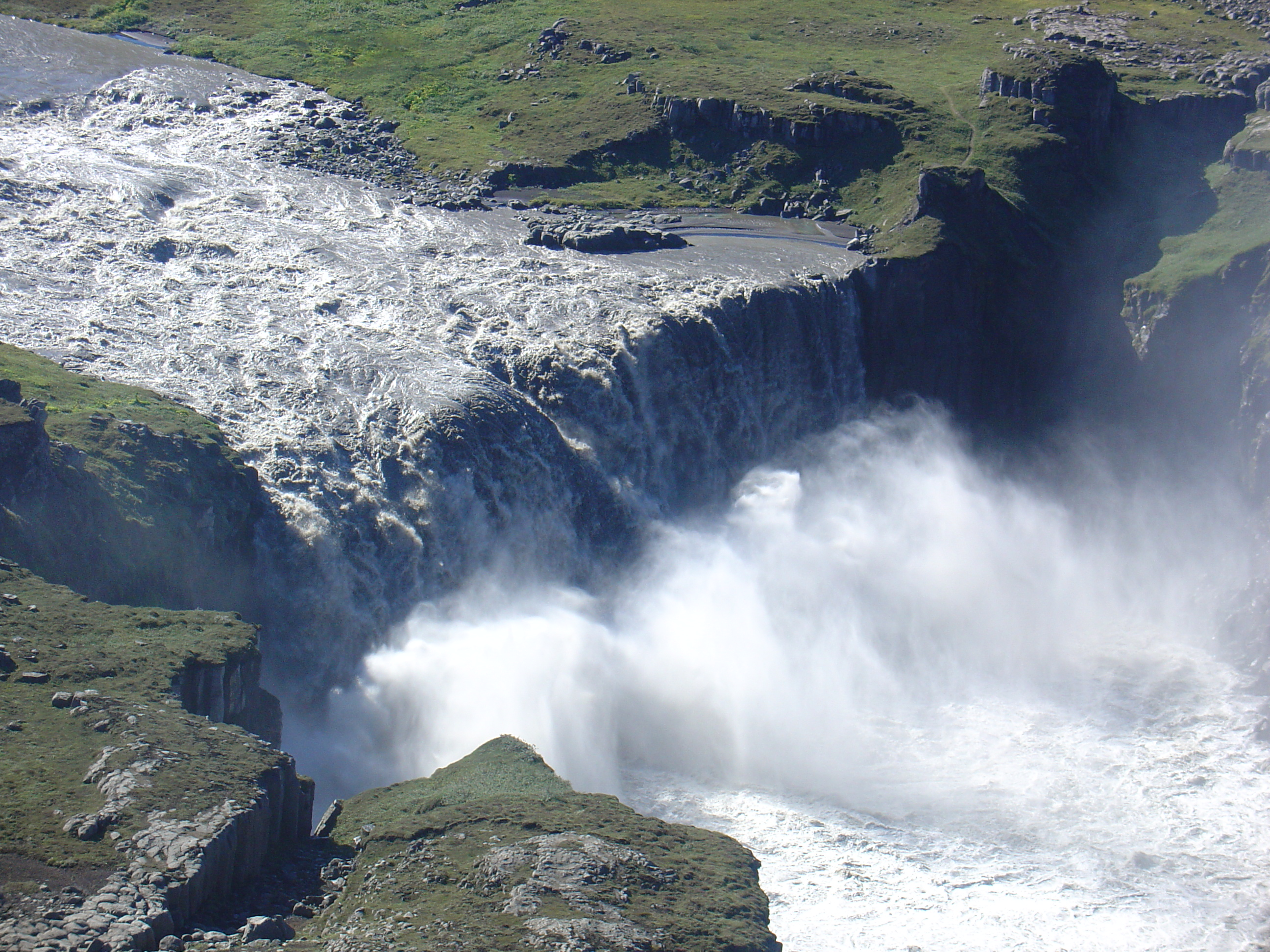 Waterfall Hafragilsfoss - Northern Iceland